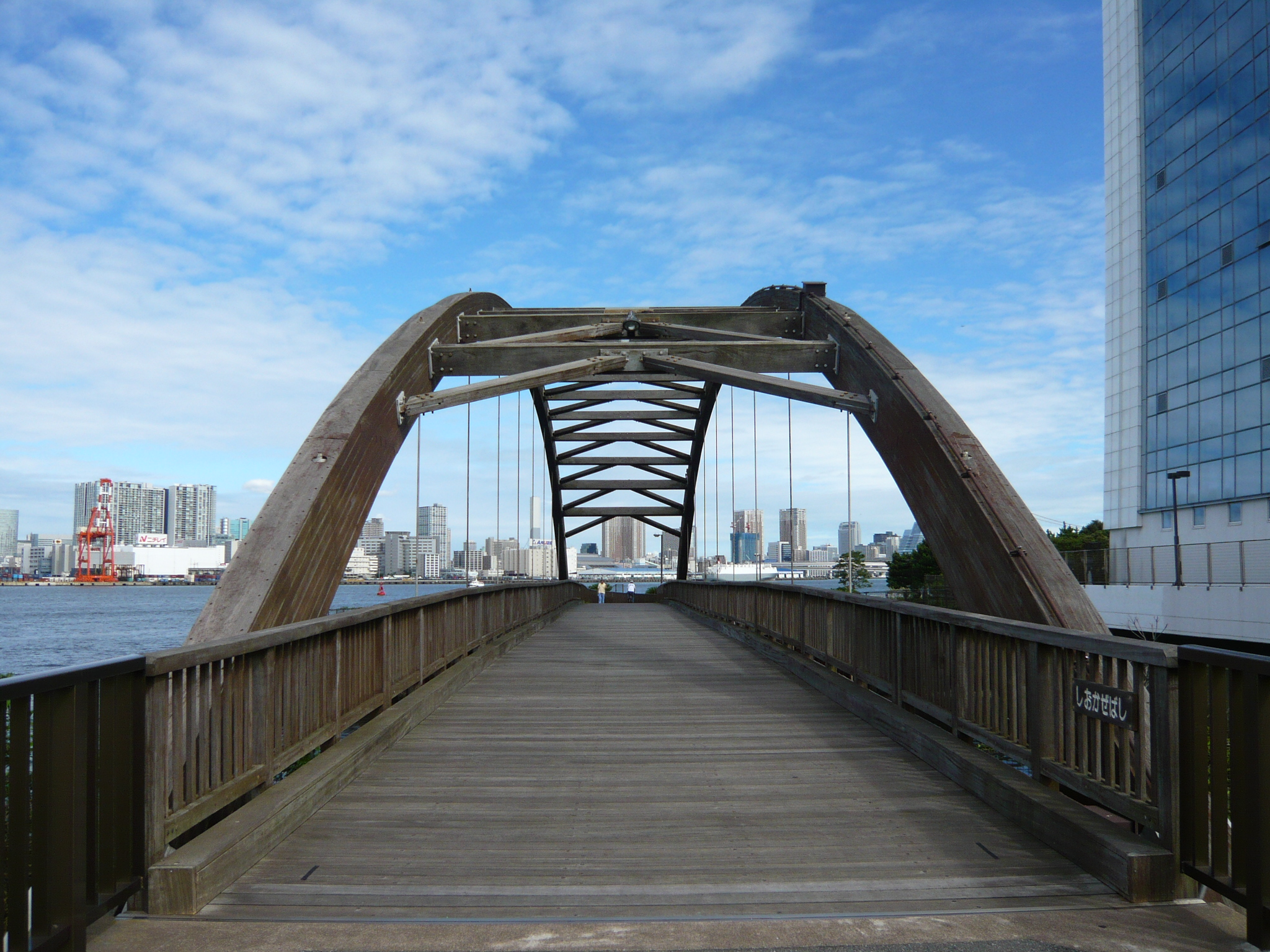 Shiokaze Bridge(Shiokaze-bashi,潮風橋) in Shinagawa-ku,Tokyo,Japan.